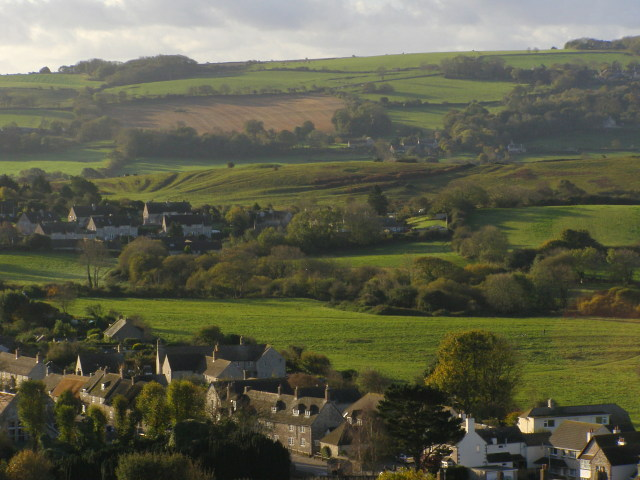 Corfe Common from Challow Hill The raised ground in the middle of the photo is Corfe Common, and the shadows from the low morning sunlight pick out the various hollow ways across the common. These are the focus of old routes from the stone quarries of the Purbeck limestone plateau as they converged on the village at Corfe Castle. East Street is in the foreground.